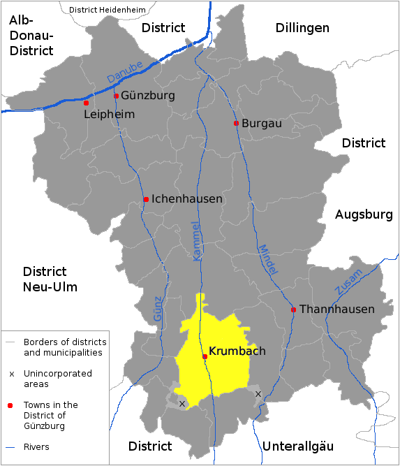 Krumbach in the district of Günzburg – map - English